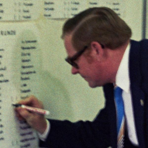 Helmut Nöttger, German Chess Championship 1974 at Menden, Photographer Gerhard Hund.